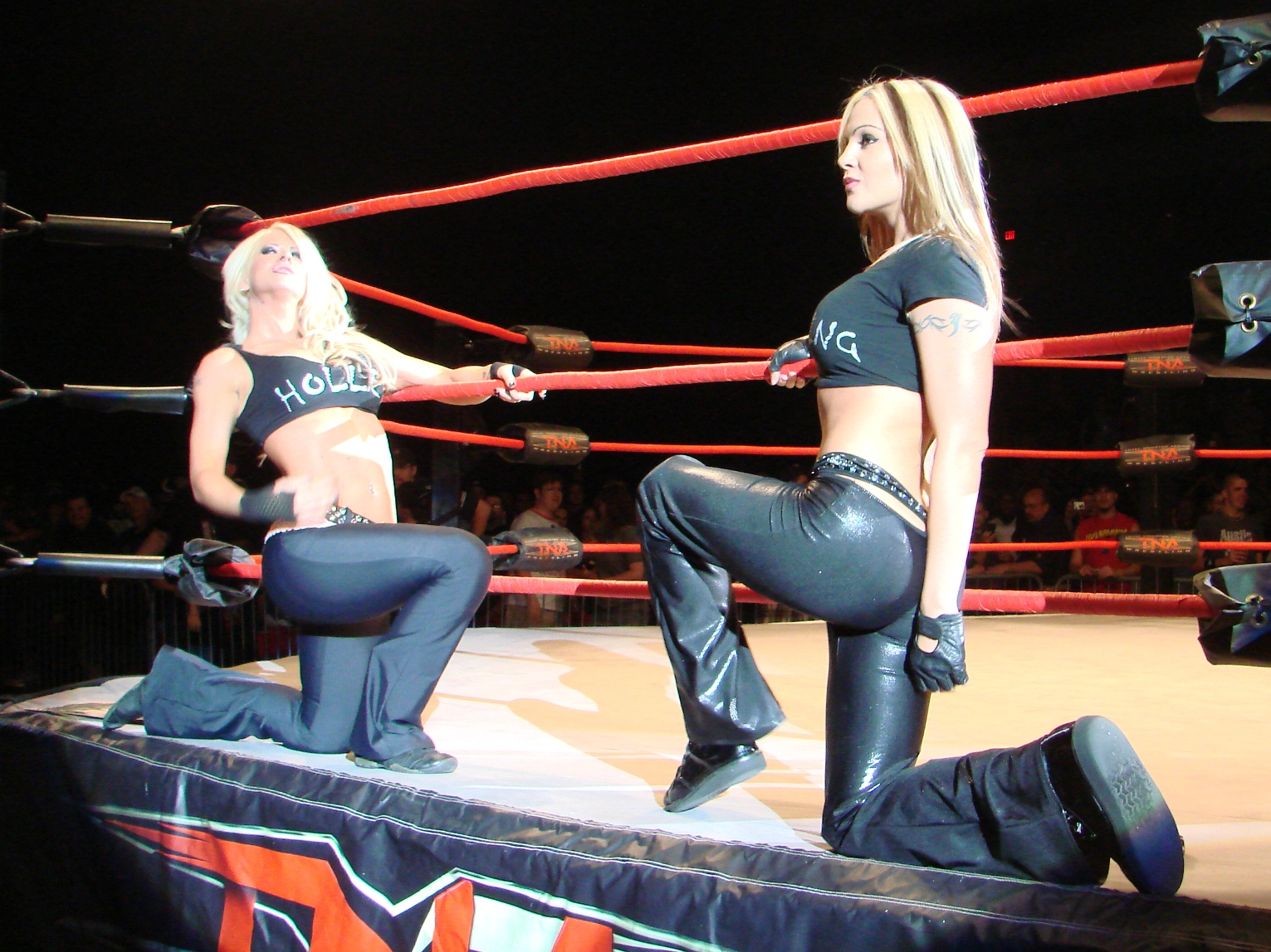 The Beautiful People (Angelina Love and Velvet Sky) at a TNA Wrestling Live Event. US Cellular Coliseum, Bloomington, IL.